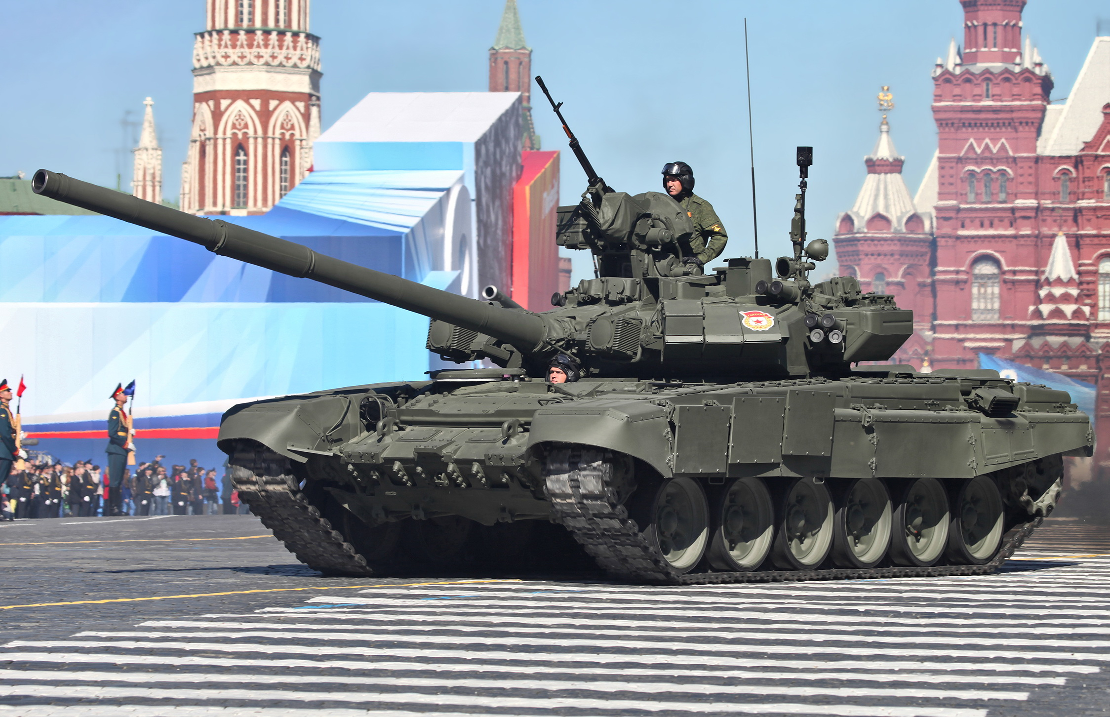 T-90A main battle tank